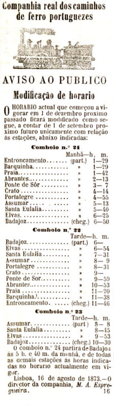 New timetable of the Companhia Real dos Caminhos de Ferro Portugueses (Royal Company of the Portuguese Railways), for the part of the Linha do Leste (Eastern Railway) between Entroncamento and Badajoz. This new timetable would begin on the 1st September 1873. This image was published on the Diario Illustrado newspaper No. 387, of 27th August 1873, and scanned by the Biblioteca Nacional de Portugal.